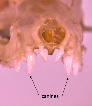 Image of the canine teeth of a microbat. Specimen from the Pacific Lutheran University Natural History collection.